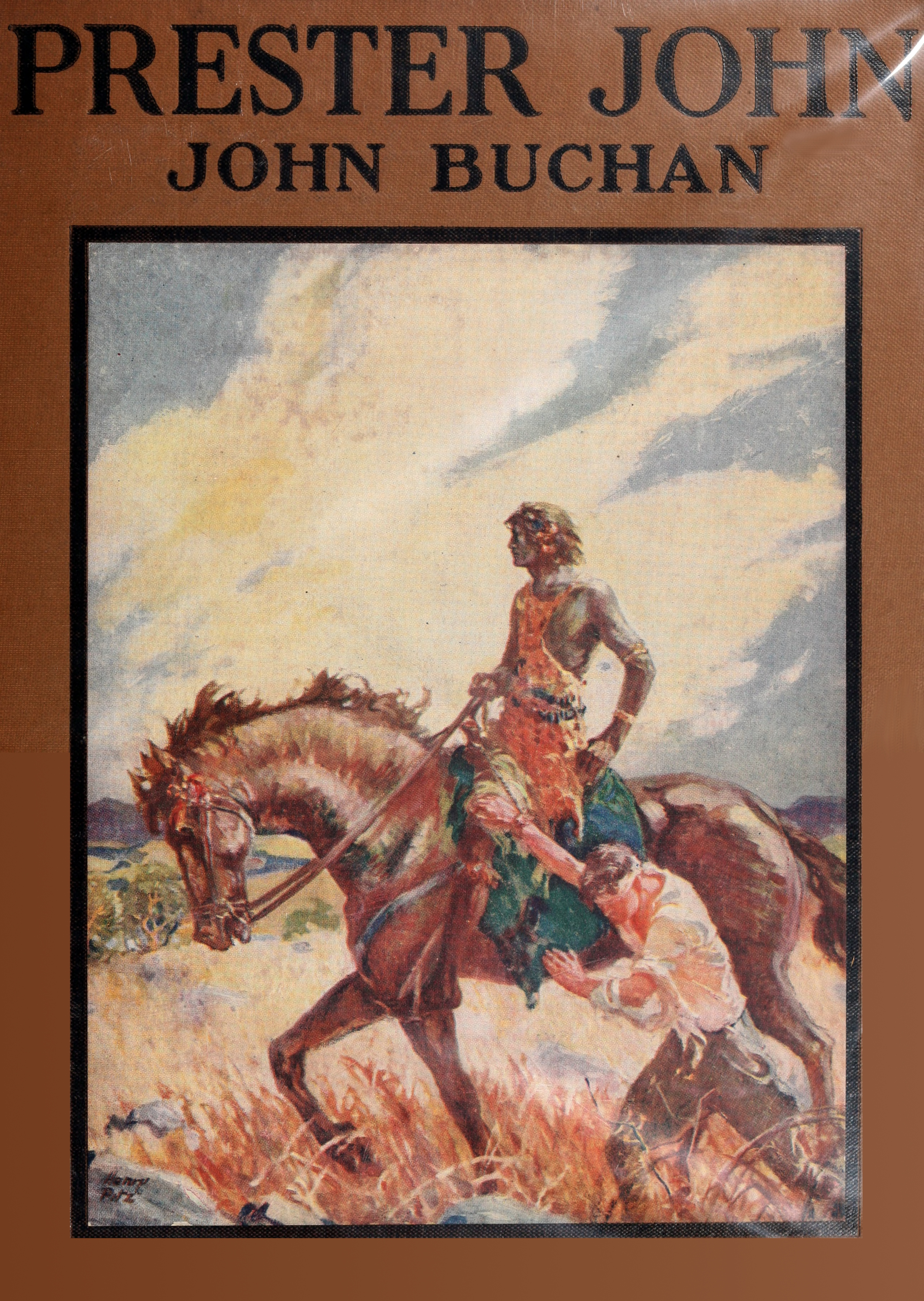 Cover--from scan of novel "Prester John" (1910), written by John Buchan and illustrated by Henry Clarence Pitz.